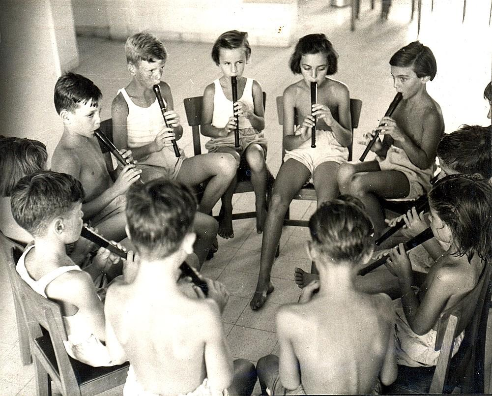 Recorder playing lesson